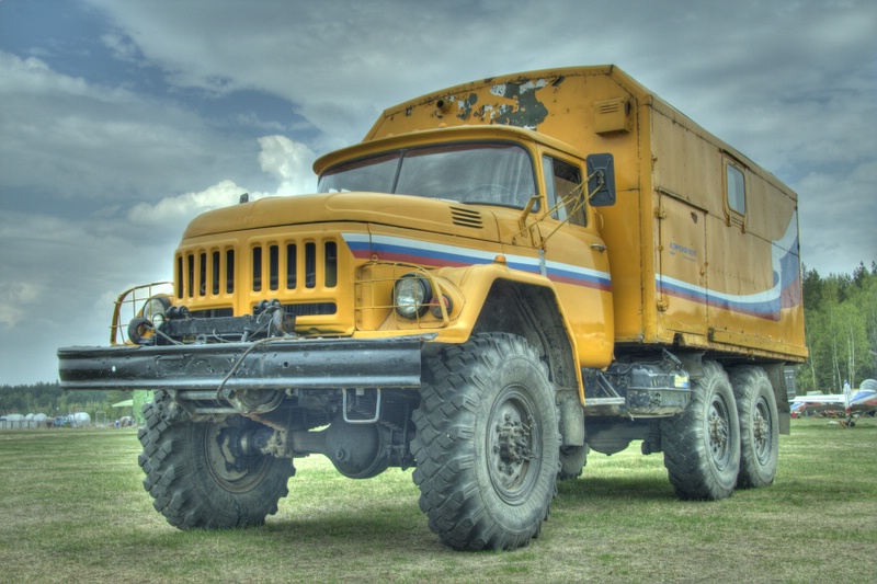 An airfield emergency truck at the Didikeno airfield. The sign inside still reads Sheremetyevo International Airport.